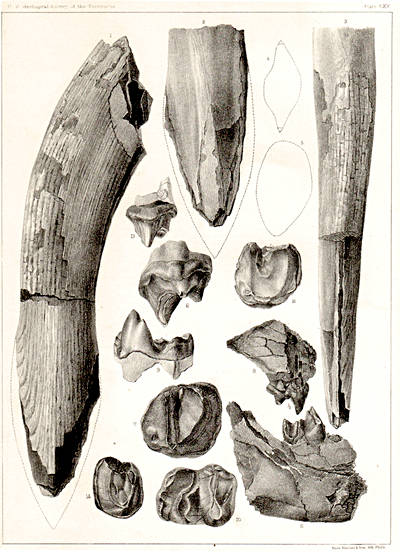 Plate XXV from "The Extinct Fauna of the Western Territories", by Joseph Leidy.